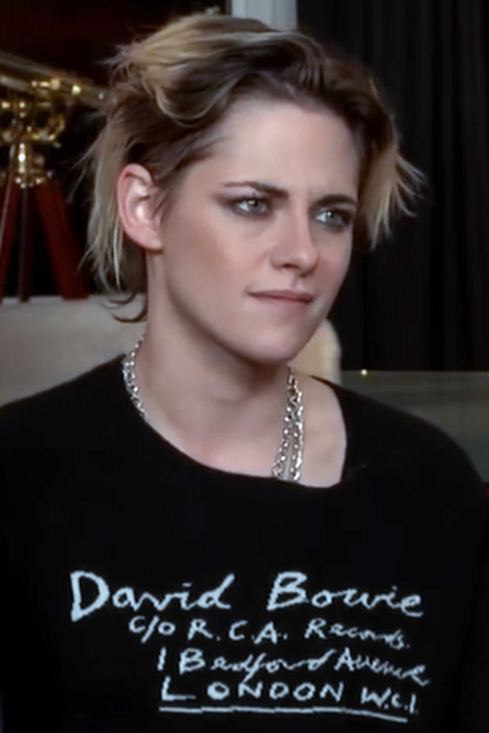 Kristen Stewart during interview, November 2019.